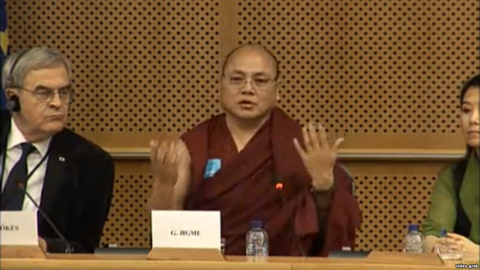 Repression in Tibetan Area of China.